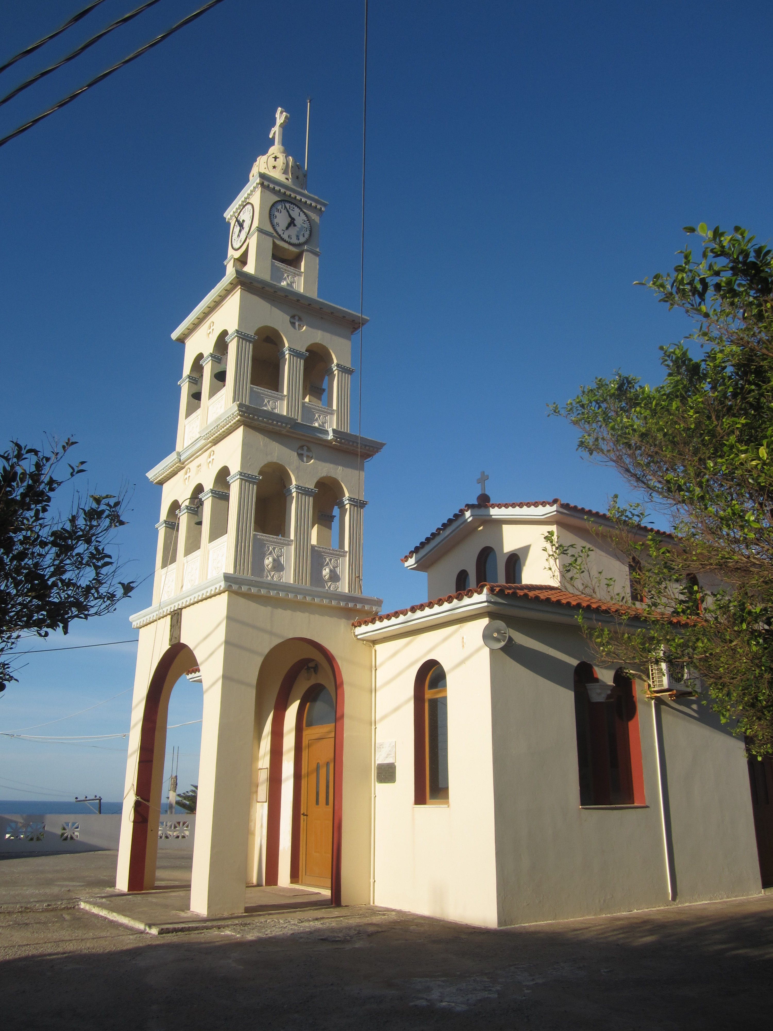 Church of Stalos, Crete.